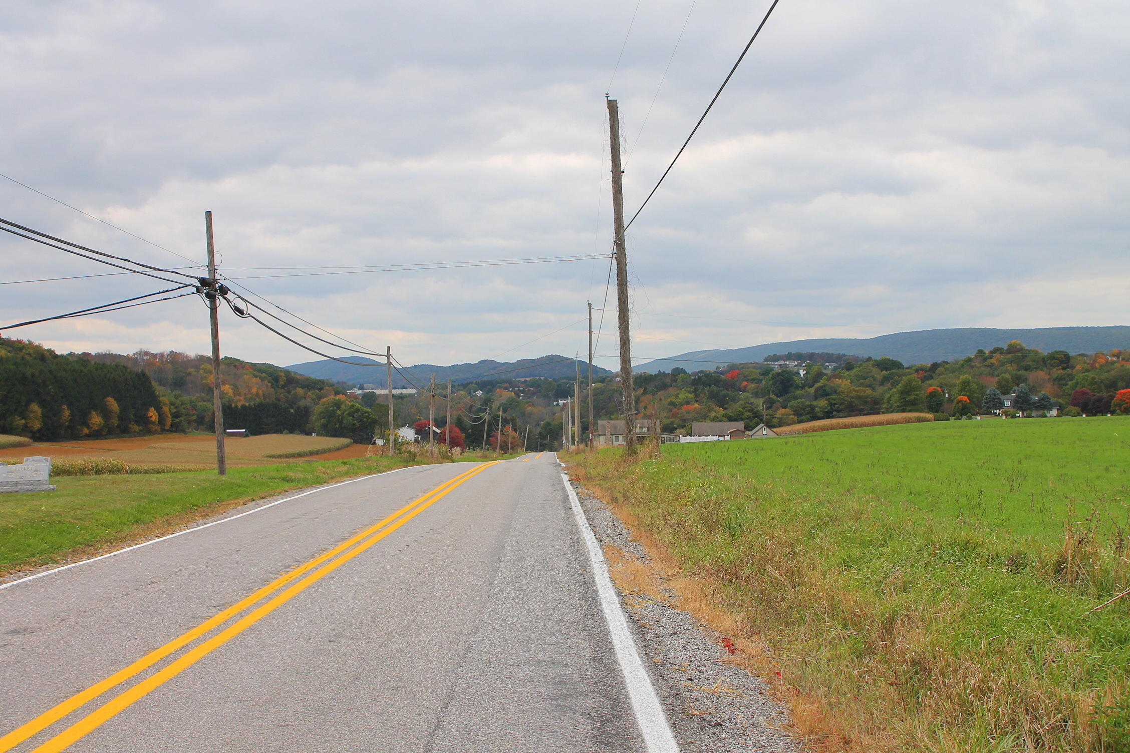 Brandonville Road looking west towards Ringtown, Pennsylvania